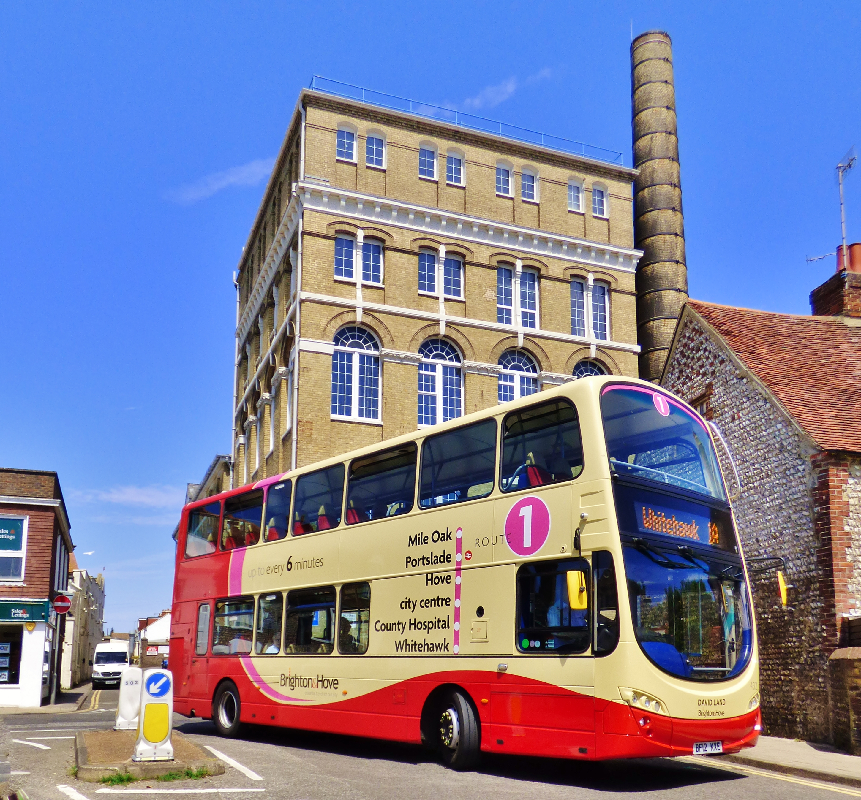 Brighton and Hove Buses